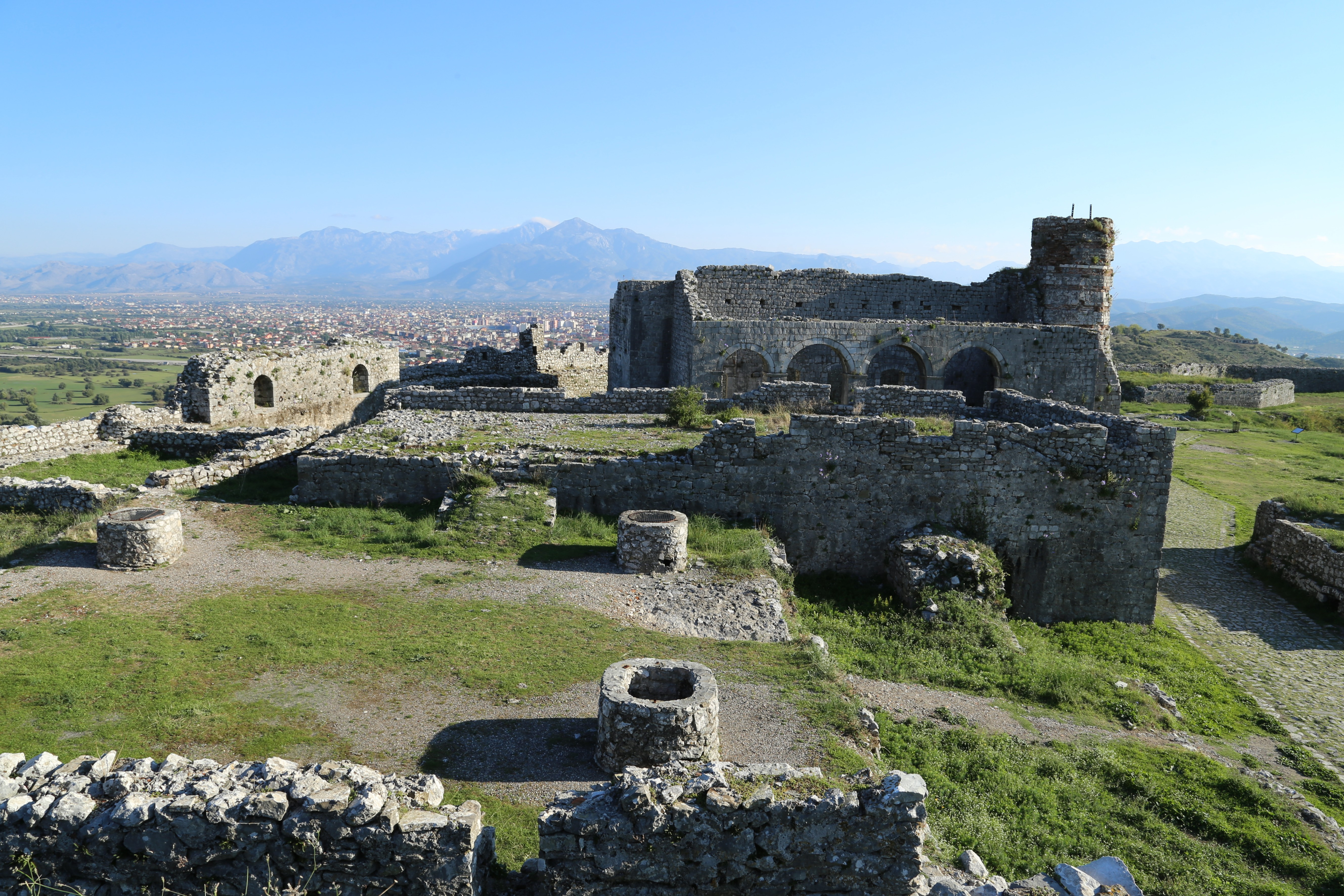 Rozafa Castle in Albania